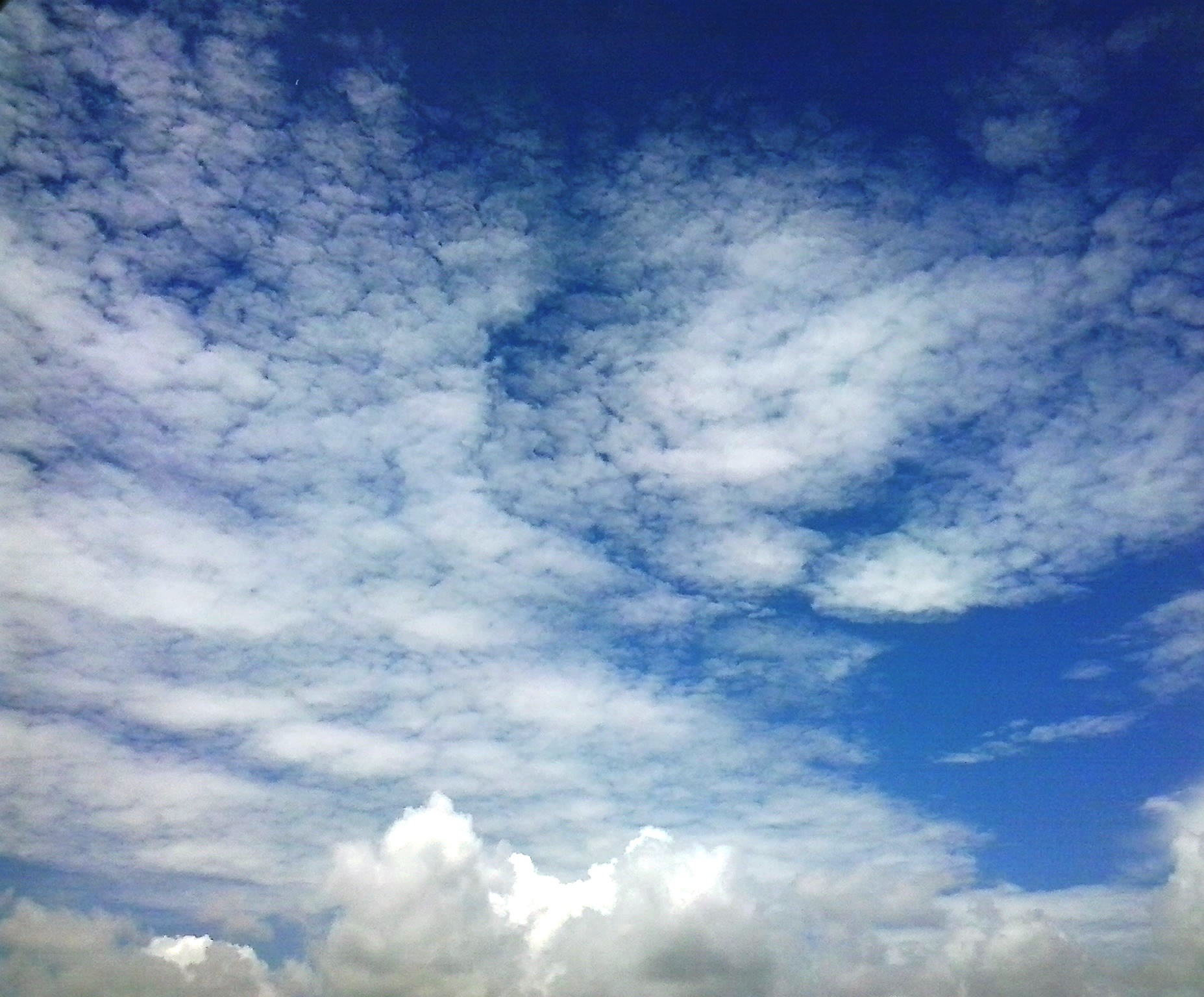 Colourful sky over padma river